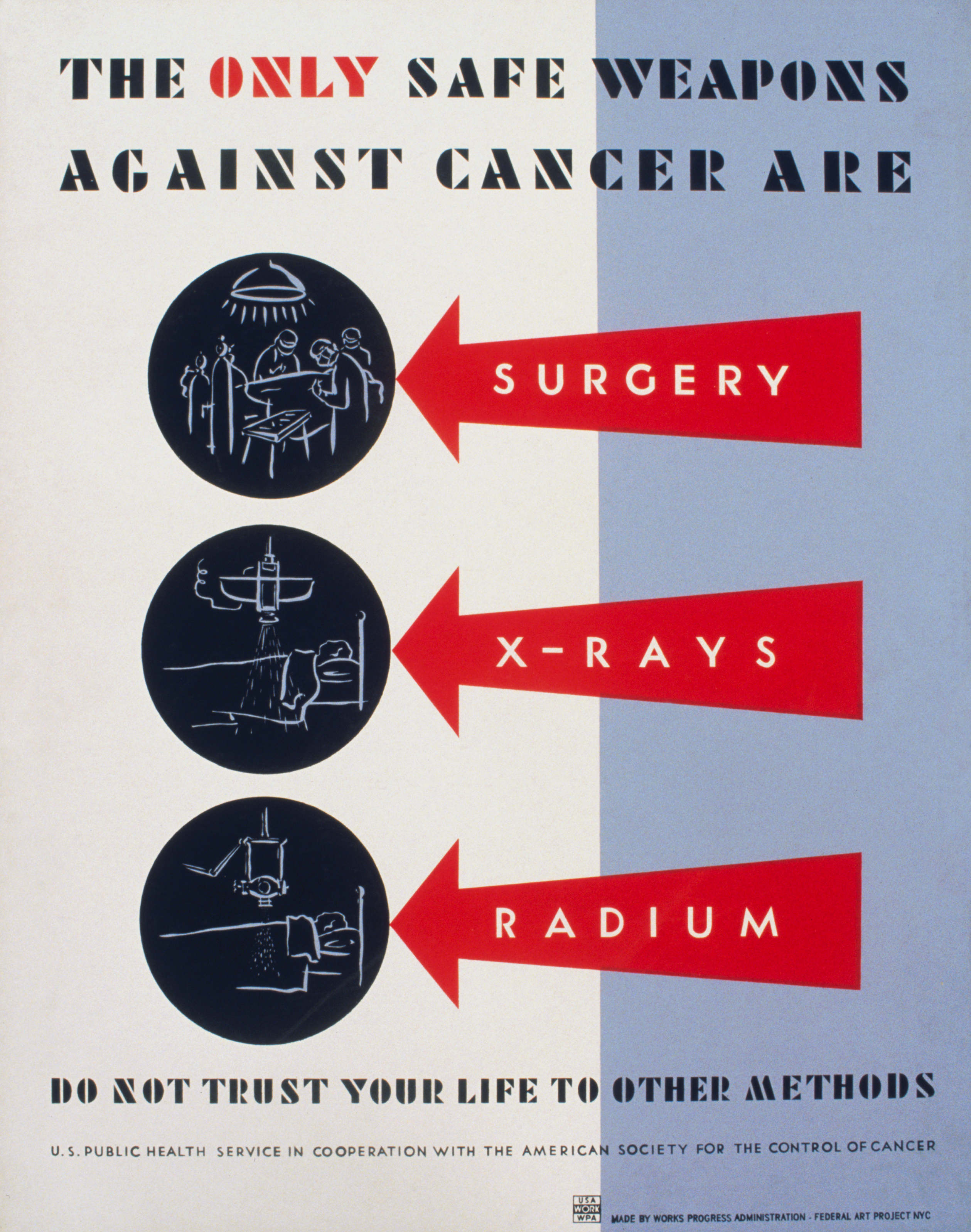 Restored jpg version Description copied from the library of congress page for the item: Title: The only safe weapons against cancer are surgery, x-rays [and] radium Do not trust your life to other methods. Creator(s): Velonis, Anthony, 1911-, artist Date Created/Published: NYC : Works Progress Administration Federal Art Project, 1938 Medium: 1 print on board (poster) : silkscreen, color. Summary: Poster identifying proper treatments for cancer. Reproduction Number: LC-USZC2-5515 (color film copy slide) LC-USZC4-5902 (color film copy transparency) Rights Advisory: No known restrictions on publication. Call Number: POS - WPA - NY .V44, no. 9 (C size) [P&P] [P&P] [P&P] Repository: Library of Congress Prints and Photographs Division Washington, D.C. 20540 USA Notes: Date stamped on verso: Sep 2 1938. Work Projects Administration Poster Collection (Library of Congress)